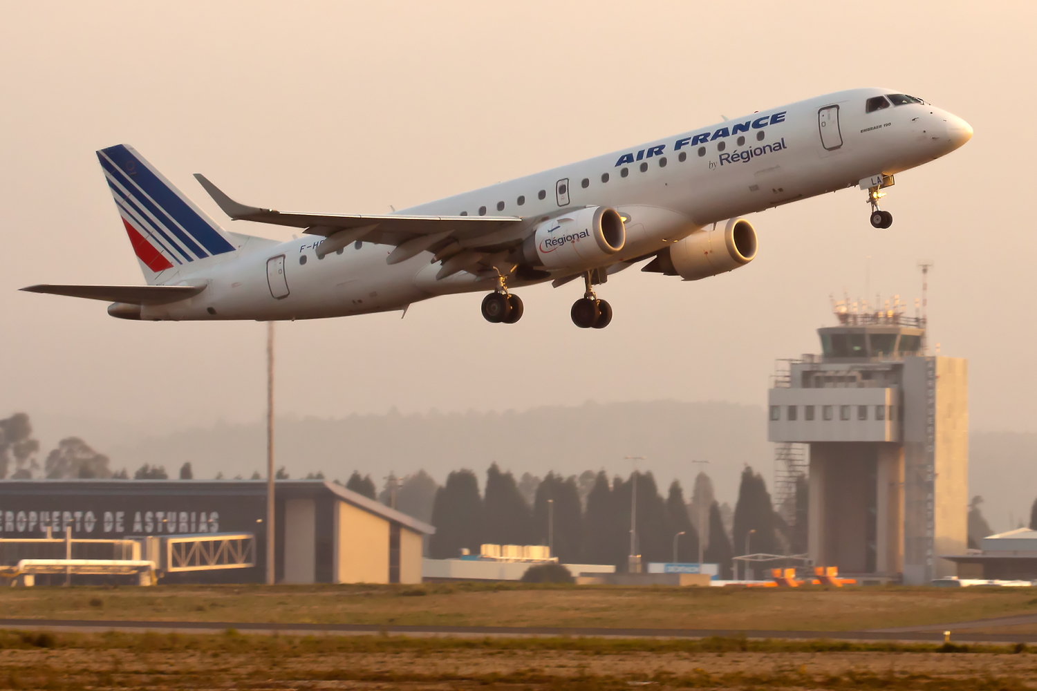 Embraer 190 Air France Régional - Asturias Airport (Spain) ( OVD - LEAS )